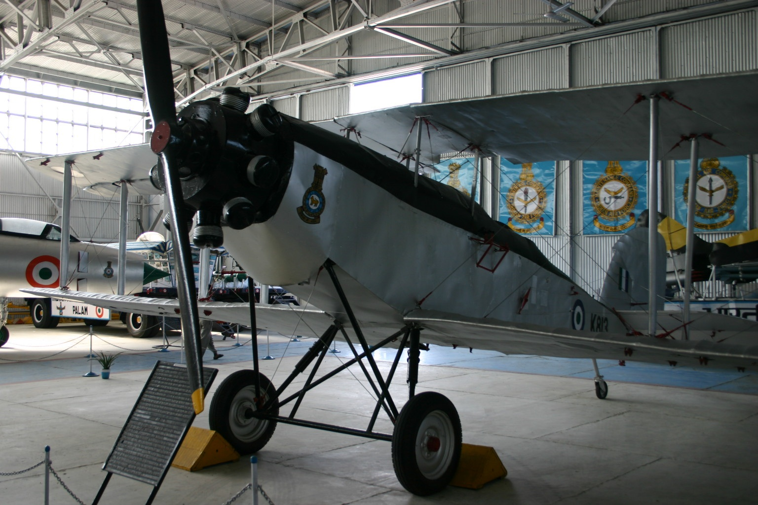 Westland Wapiti at the Indian Air Force Museum, Palam